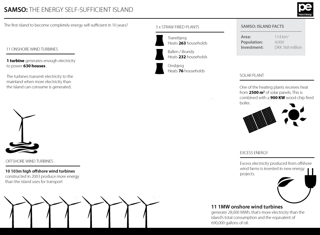 How the Danish island of Samsø, home to some 4,000 people, has transitioned from total dependency on imported fossil fuels to self-sufficiency on renewable energy.